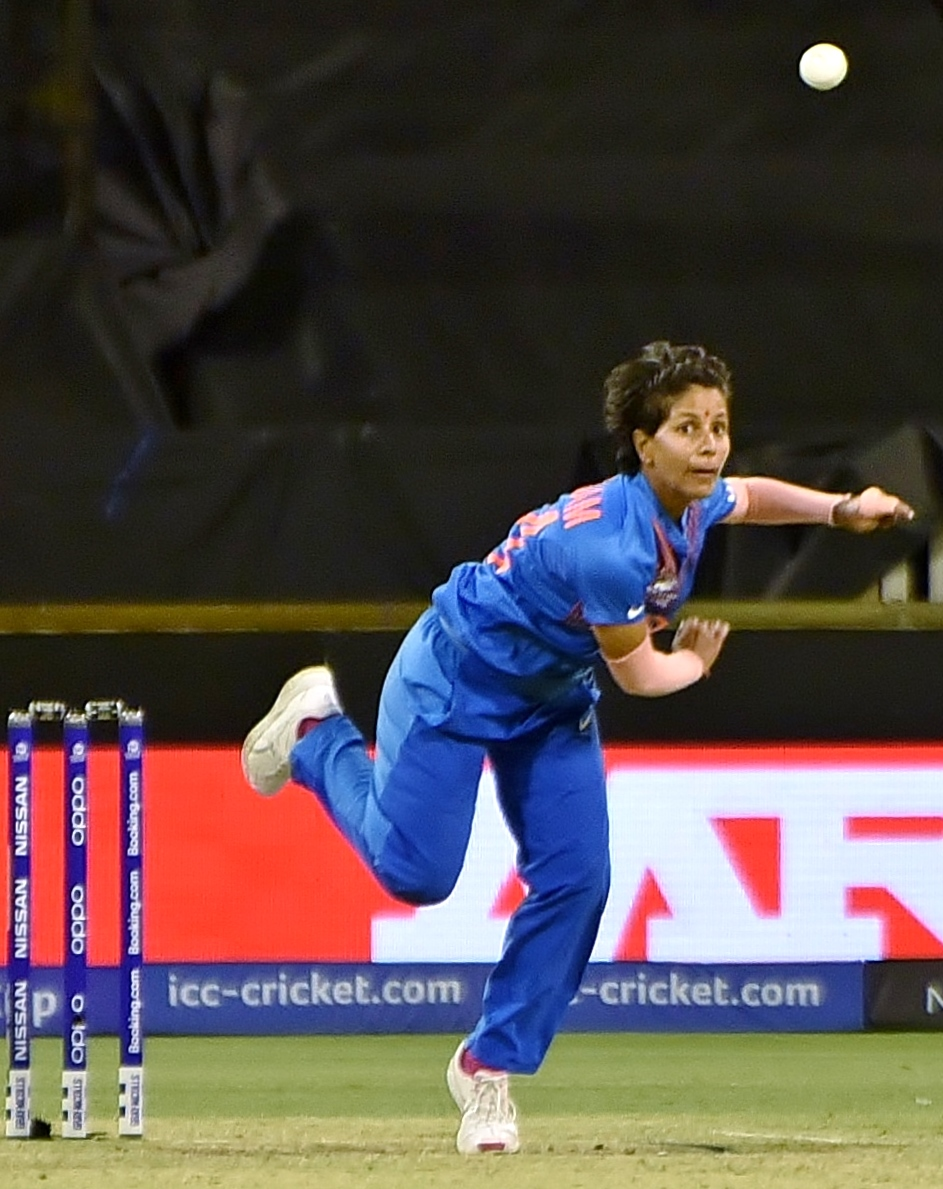 Poonam Yadav bowling for India against Bangladesh during their 2020 ICC Women's T20 World Cup match at the WACA Ground in Perth, Australia